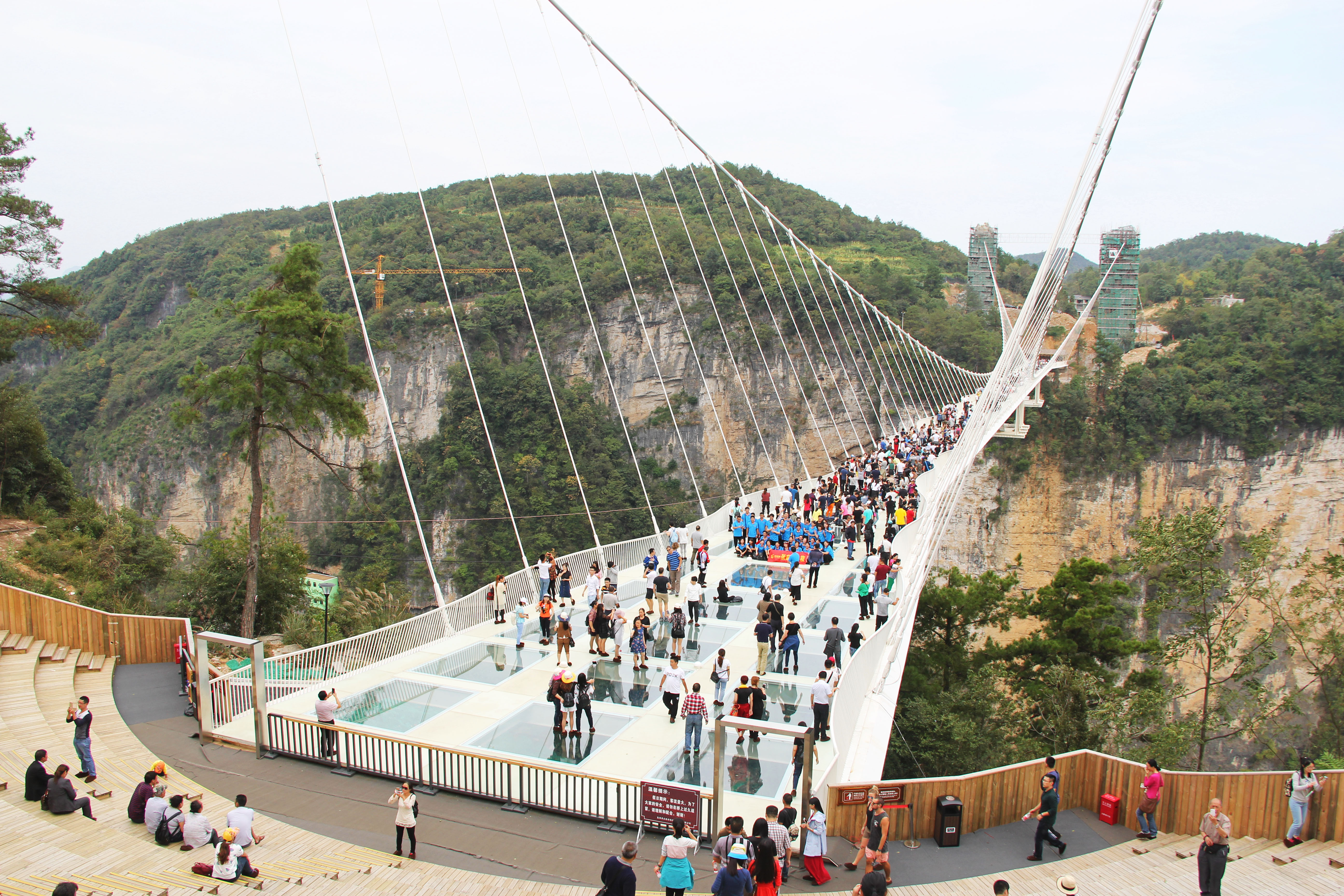 Zhangjiajie Grand Canyon Glass Bridge view from west side of gorge.